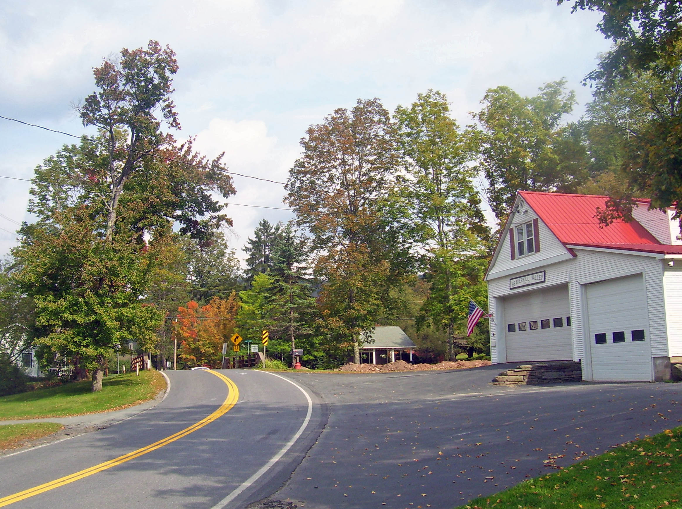 Downtown (such as it is) Lew Beach, NY, USA